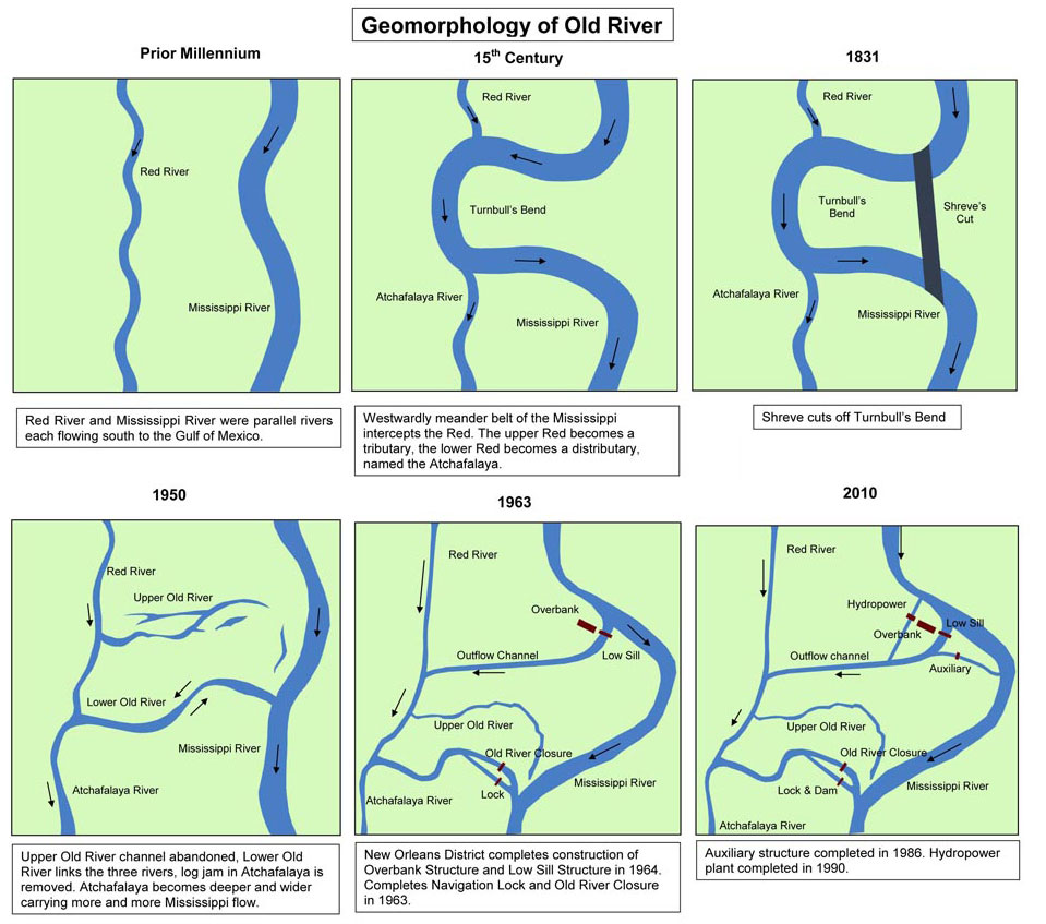 Maps showing the history of the course of the Mississippi river at what is now the Old River Control Structure in Louisiana.